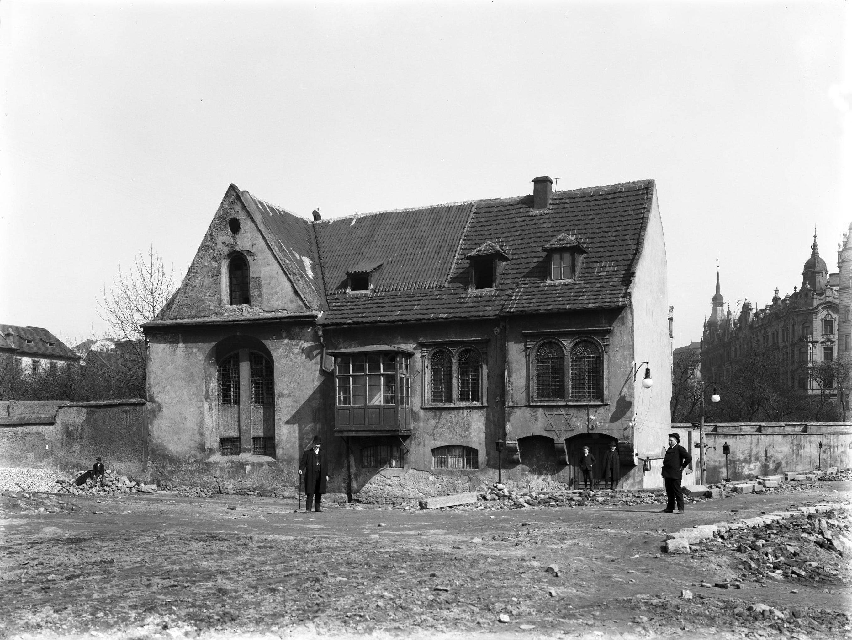 Pinkas Synagogue in Prague during Josefov demolition